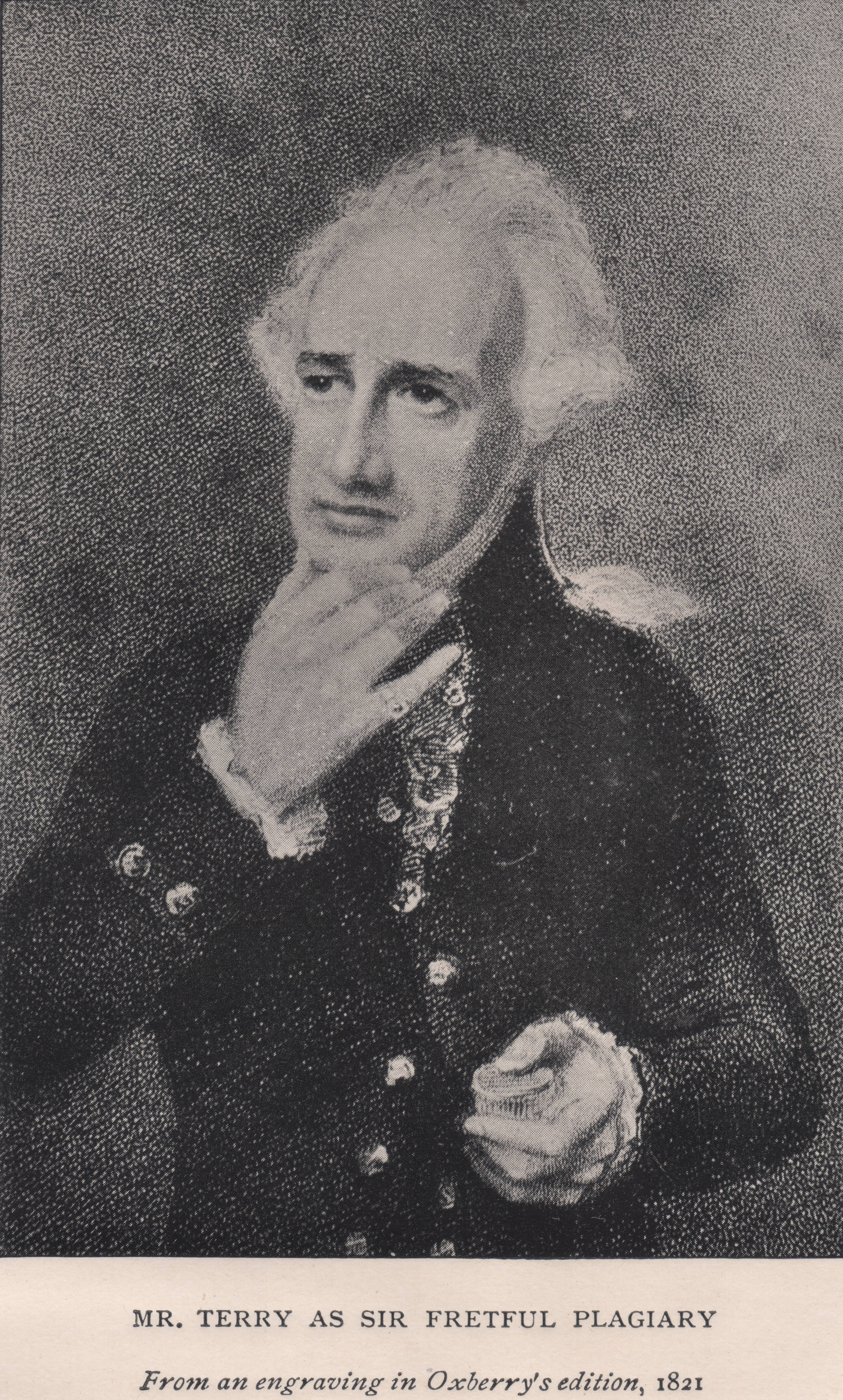 Scanned from The Dramatic Works of Richard Brinsley Sheridan With An Introduction By Joseph Knight And Fifteen Illustrations Oxford Edition Published by Henry Frowde 1906 Oxford University Press Printed by Horace Hart Bookseller label: Boyveau & Chevillet, Paris. Image text: Mr. Terry As Sir Fretful Plagiary. From an engraving in Oxberry's edition, 1821. Book is in the Public Domain in the US and UK Image scanned at 1200 dpi bitmap (colour) then converted to jpeg.